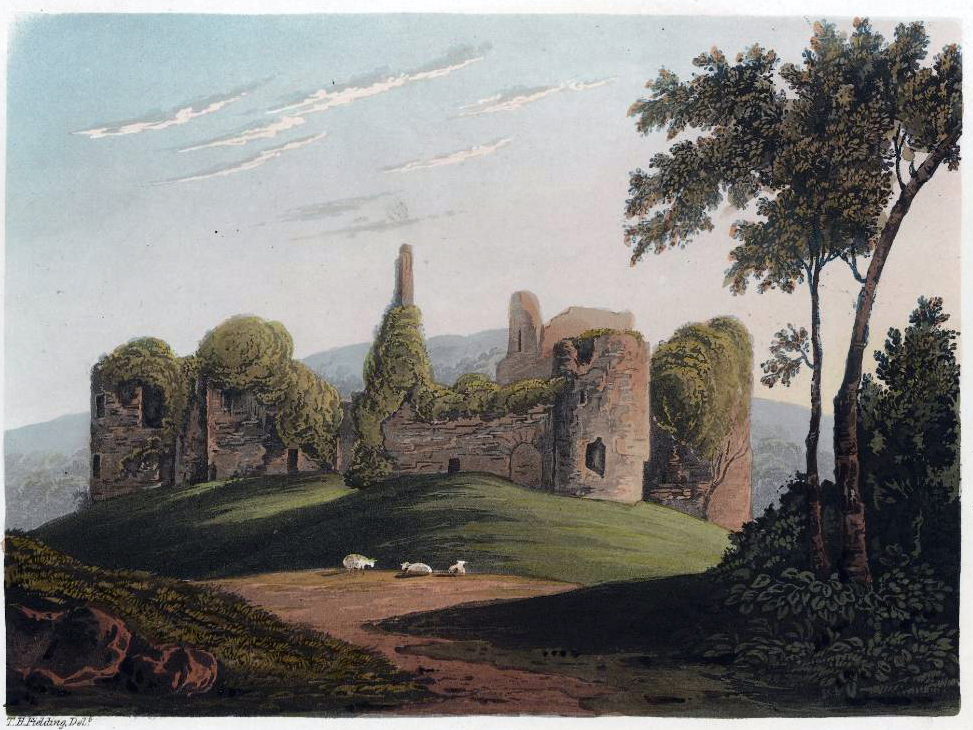 19th century print of Grosmont Castle, balanced